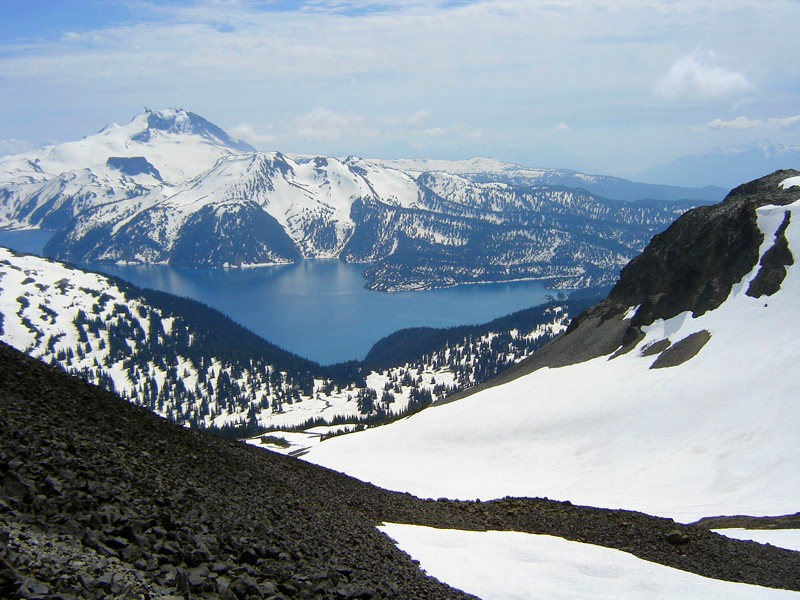 Mount Garibaldi and Garibaldi Lake viewed from 2150 metersLake Garibaldi From 2150 Meters